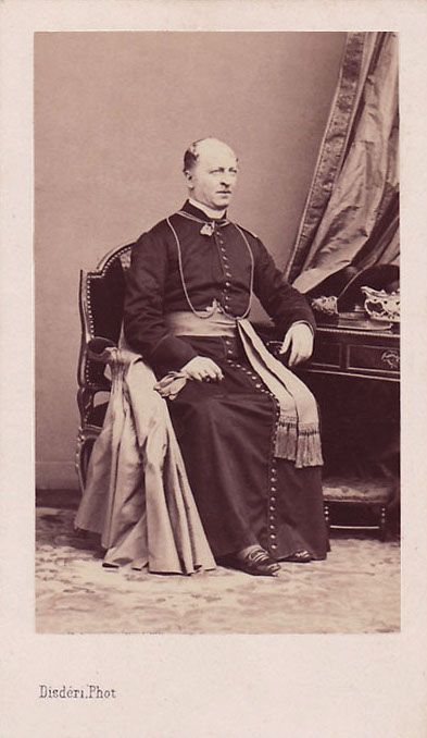 Flavio Chigi III (1810-1885), papal embassador in France.